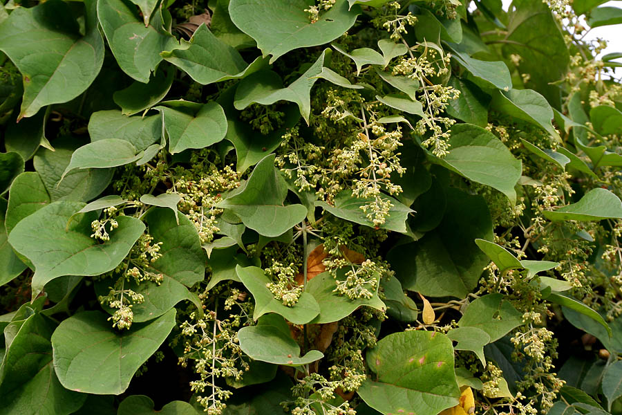 Aspidopterys cordata (syn. Hiraea cordata) at Ananthagiri Hills, in Rangareddy district of Andhra Pradesh, India.